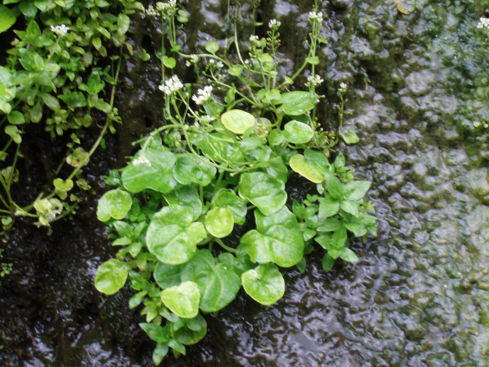 Cochlearia_officinalis (de: Echtes Löffelkraut) on the Faroe Islands